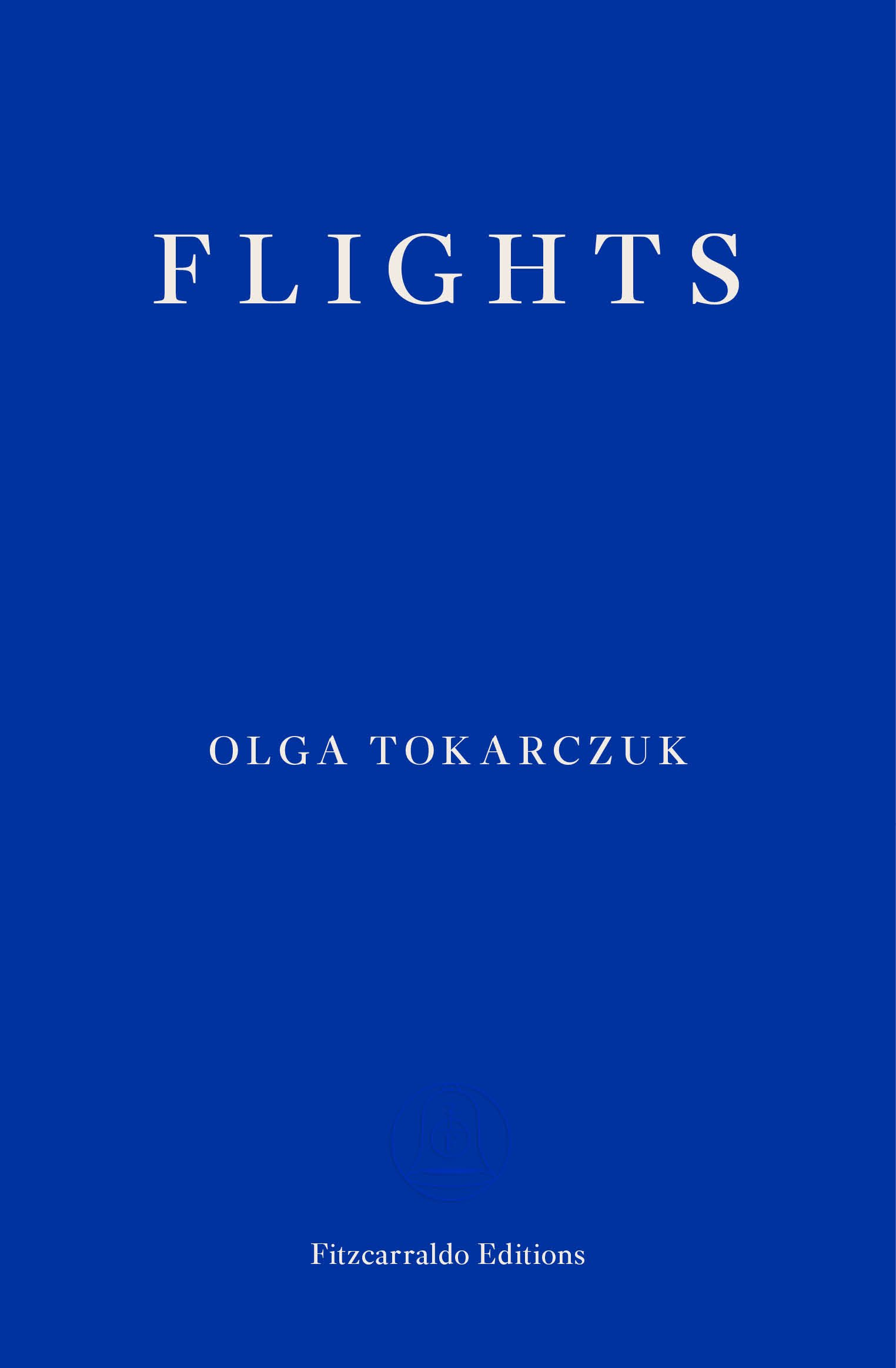 Cover of the novel "Flights by Olga Tokarczuk"